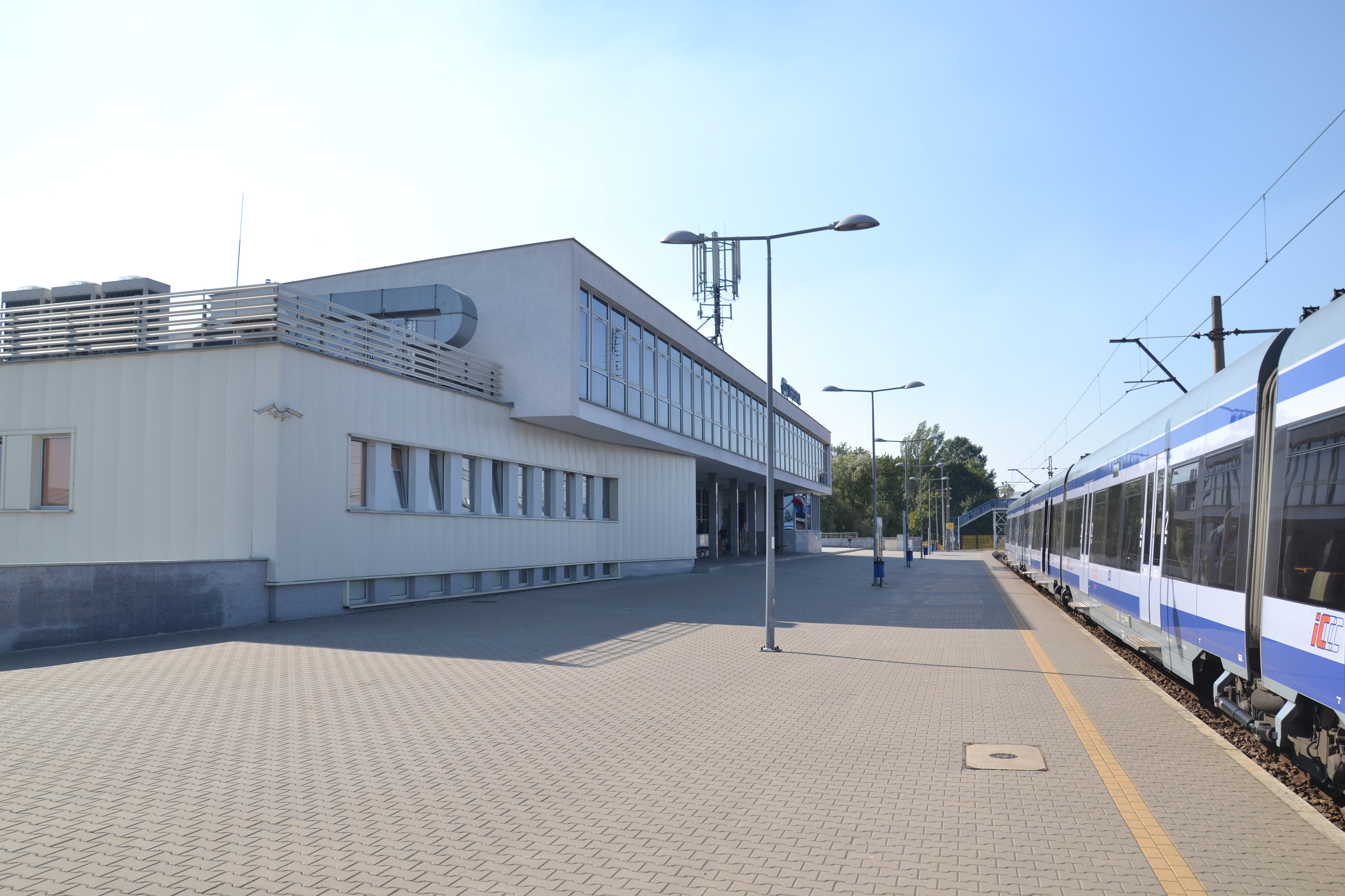 Widok stacji w Terespolu od strony peronów This photo was taken during Railway Wikiexpedition 2015 set up by Wikimedia Polska Association in cooperation with Fundacja Grupy PKP. You can see all photographs in category Wikiekspedycja kolejowa 2015.